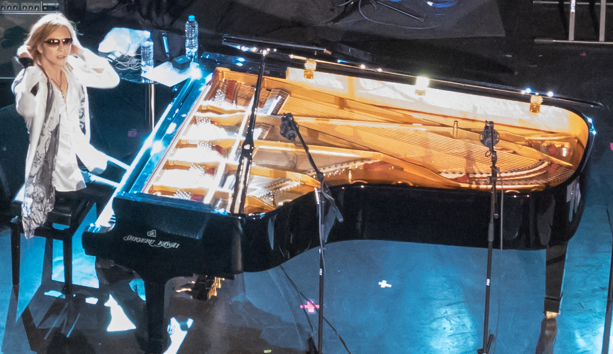 Yoshiki playing a Shigeru Kawai at Hyper Japan 2015